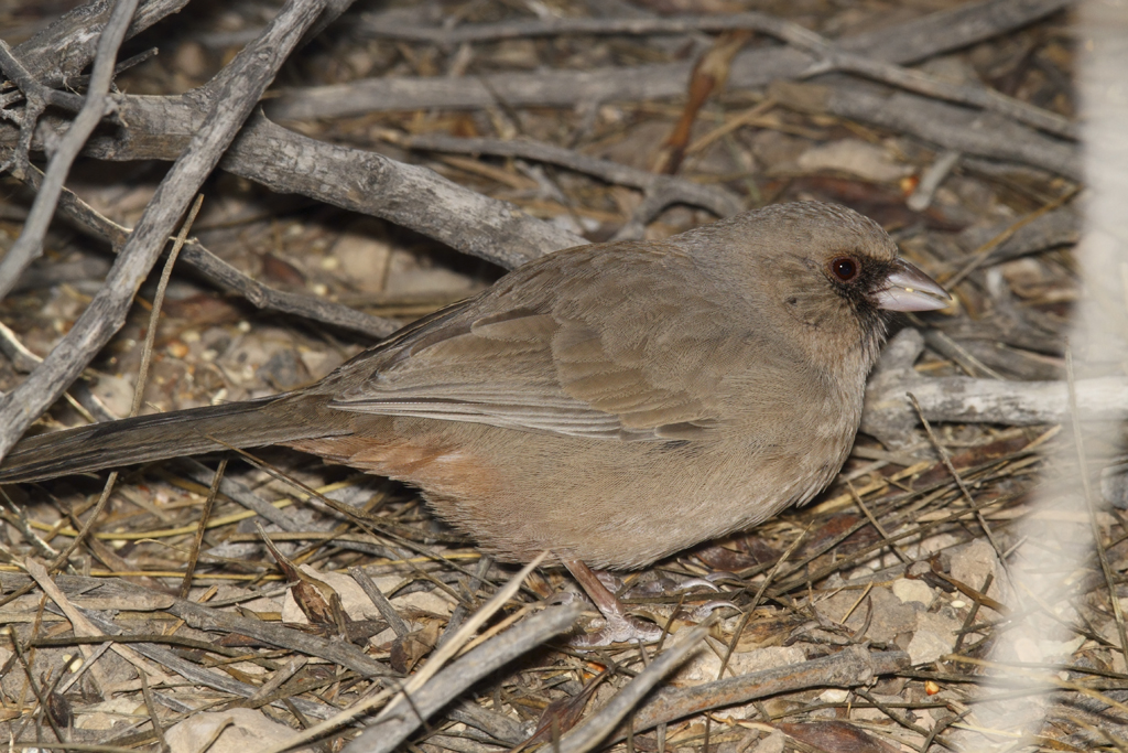 Abert's Towhee Melozone aberti, Salton Sea, California. Plain and rather secretive, Abert's Towhee stays in its breeding range year-round.